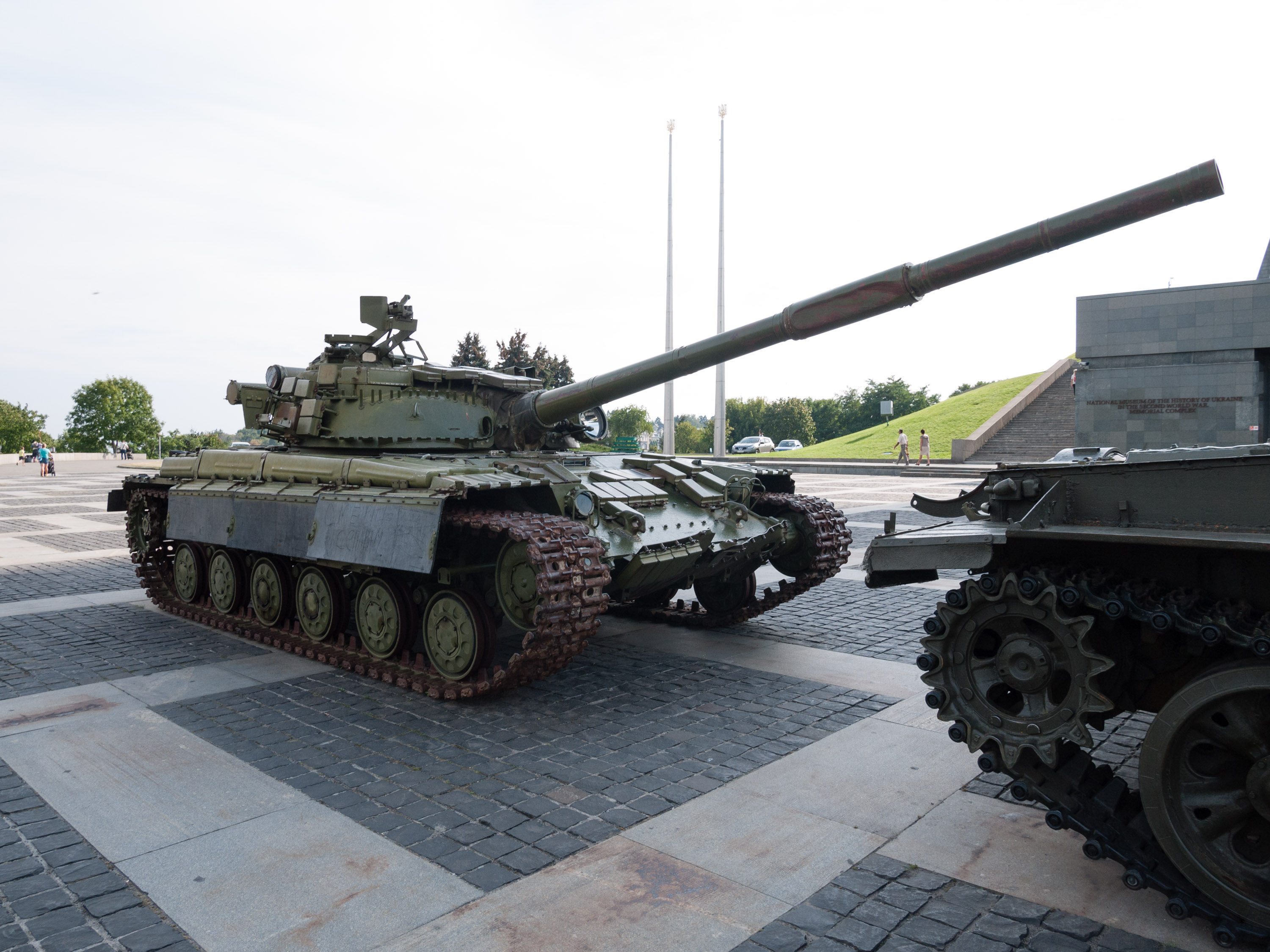 T-64BV (searchlight-number 6) view